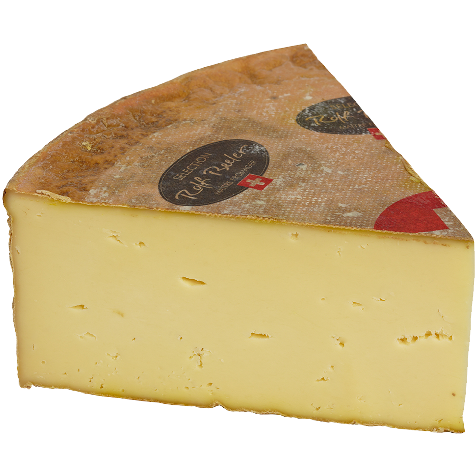 7 months matured, raw milk Vacherin Fribourgeois by affineur Rolf Beeler